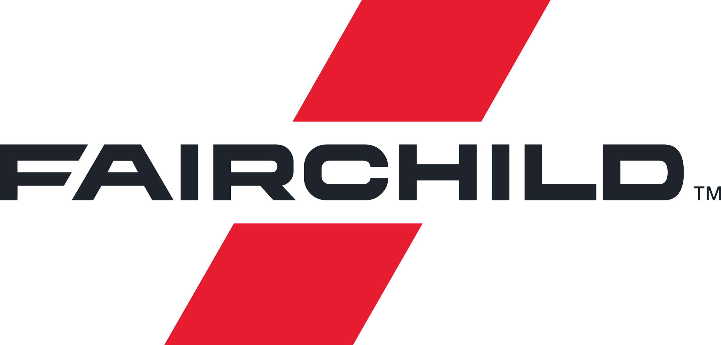 Fairchild Semi new logo